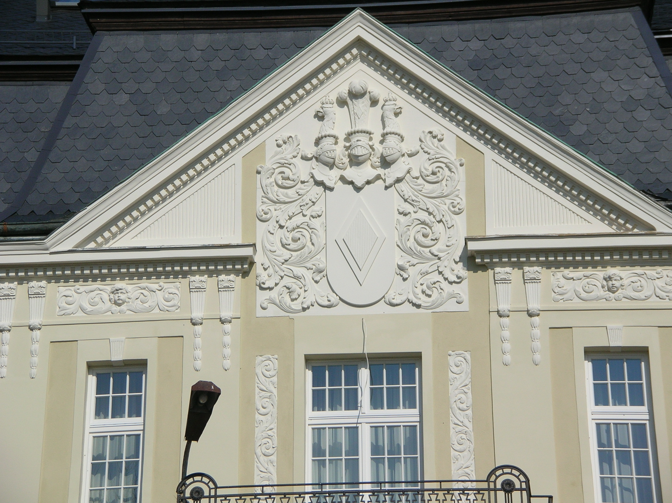 Palace in Borowa Oleśnicka